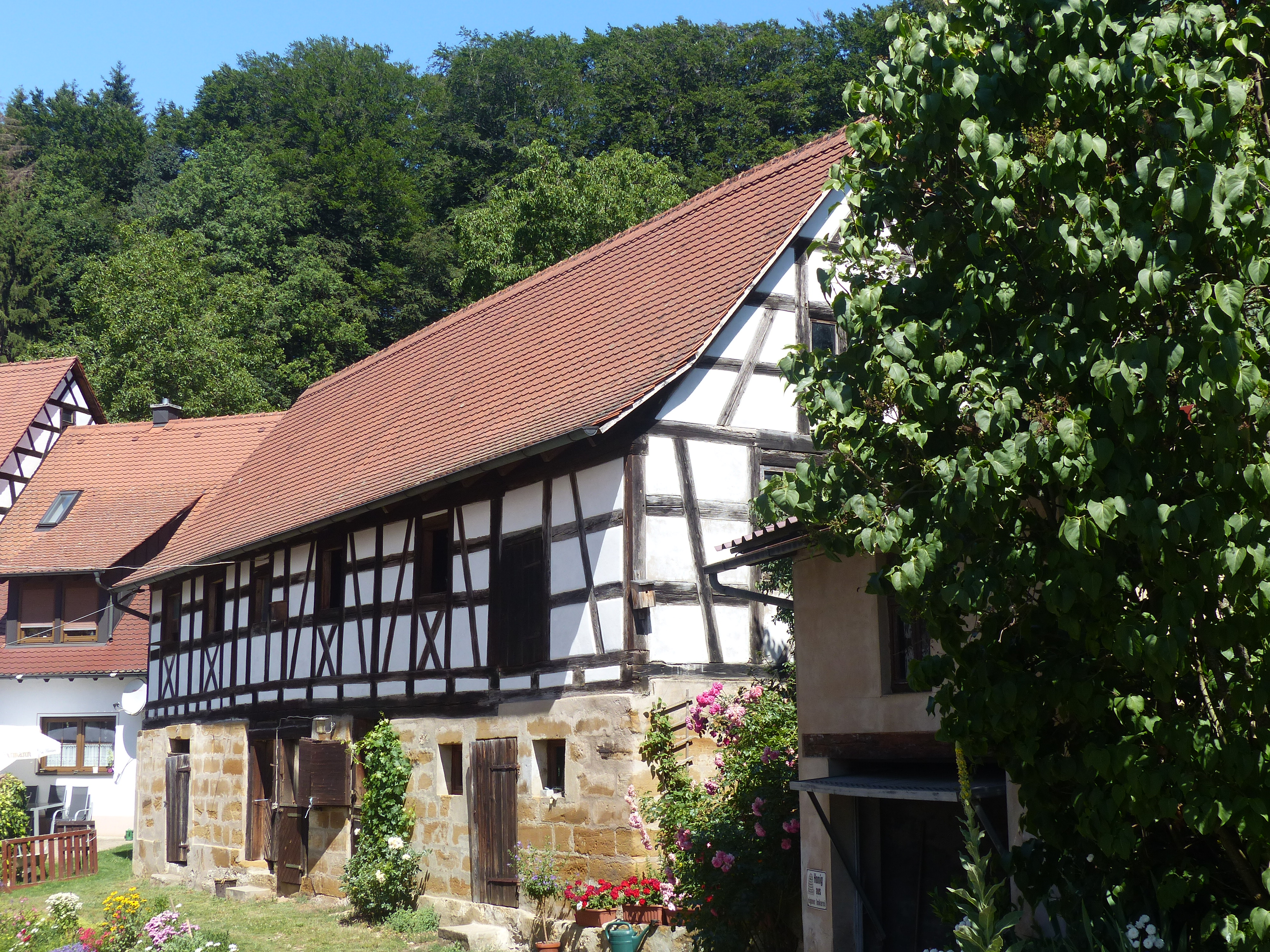 The horse stable of the estate Schlichenreuth 1 in the hamlet Schlichenreuth, a district of the town of Gräfenberg.